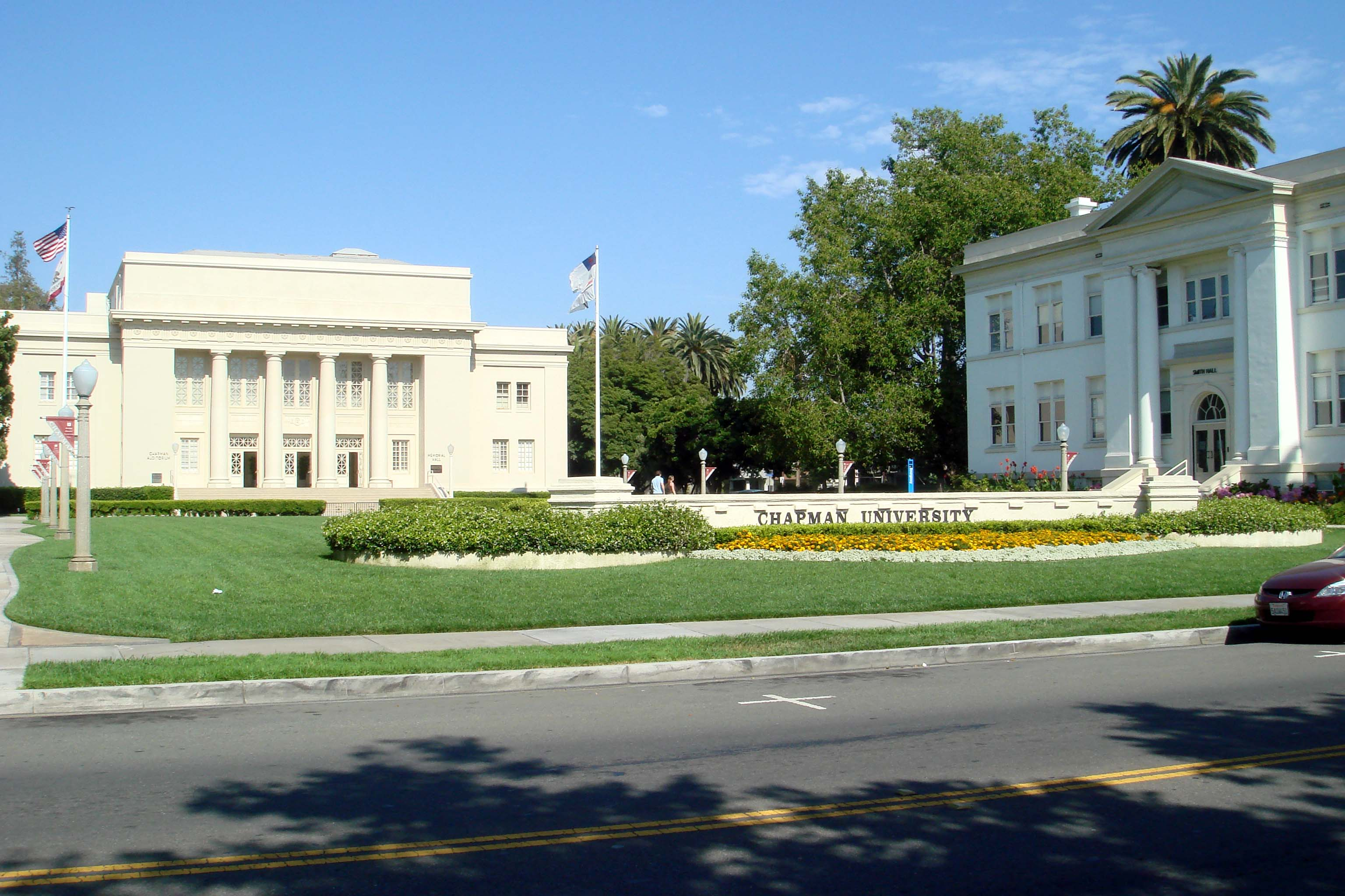 Chapman University (Orange, California): Pictured are the Williams Mall, with Memorial Hall (left) and Smith Hall (right)